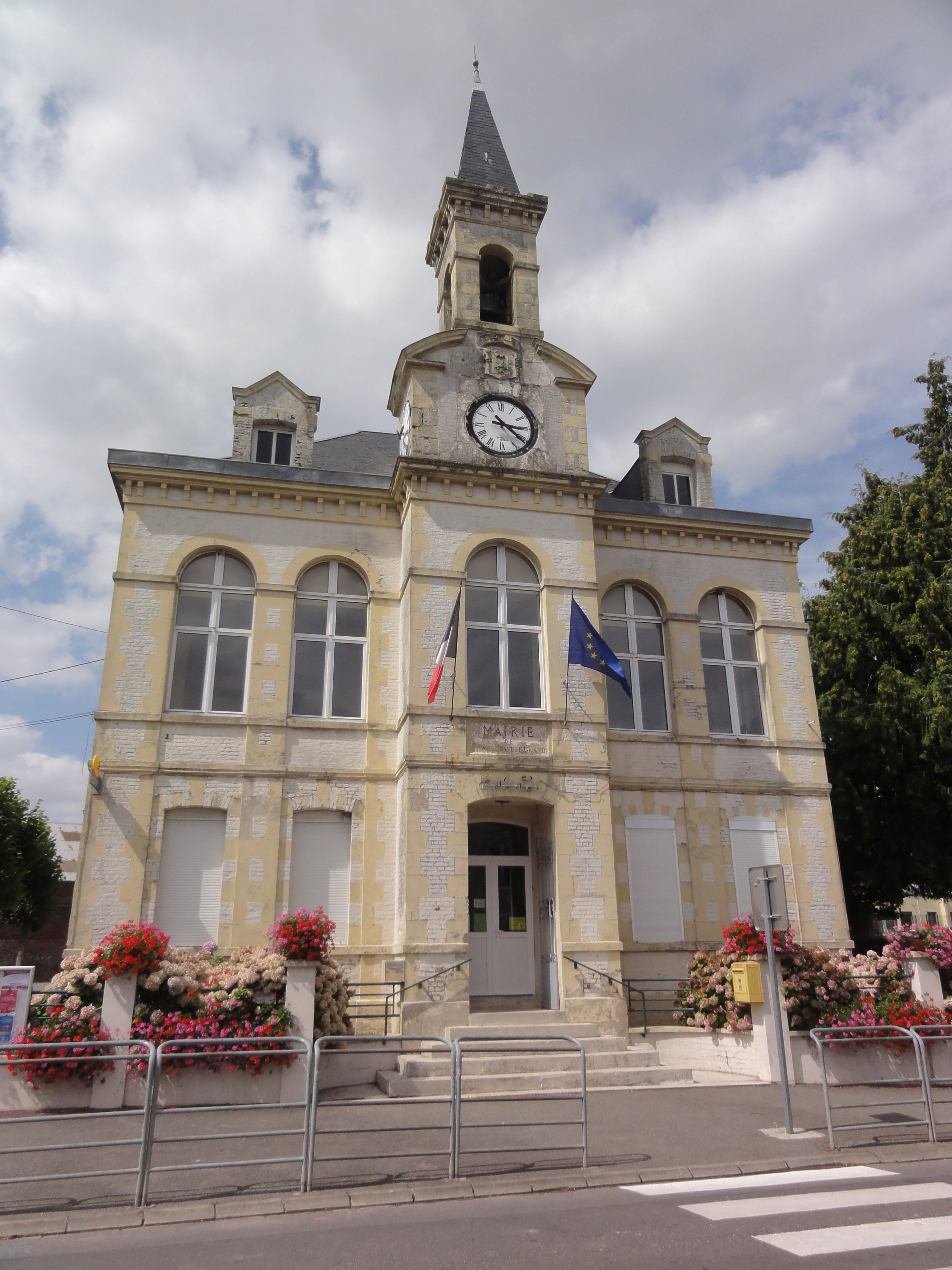 Brancourt-le-Grand (Aisne) mairie